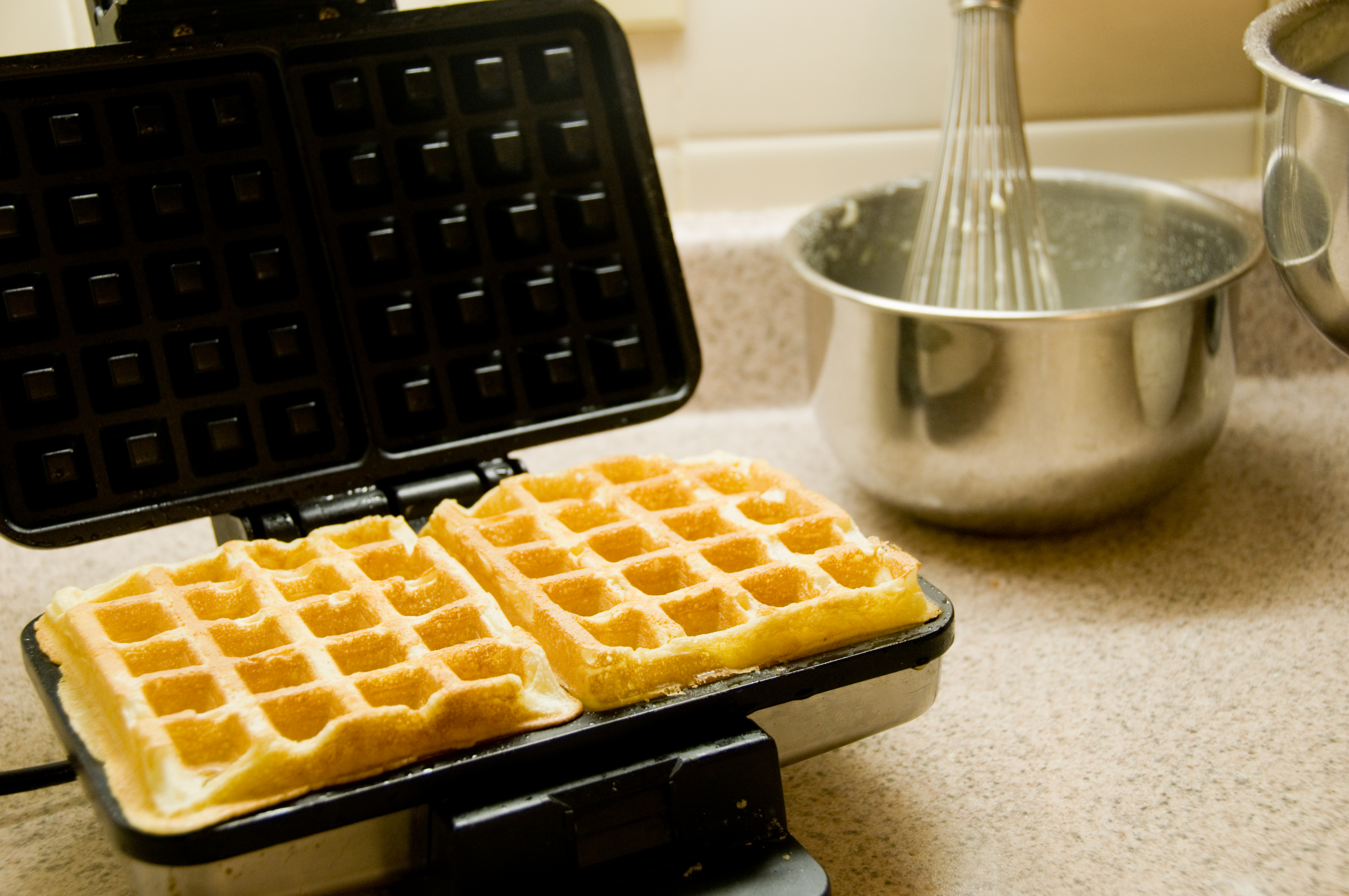 Fresh waffles still on the iron.